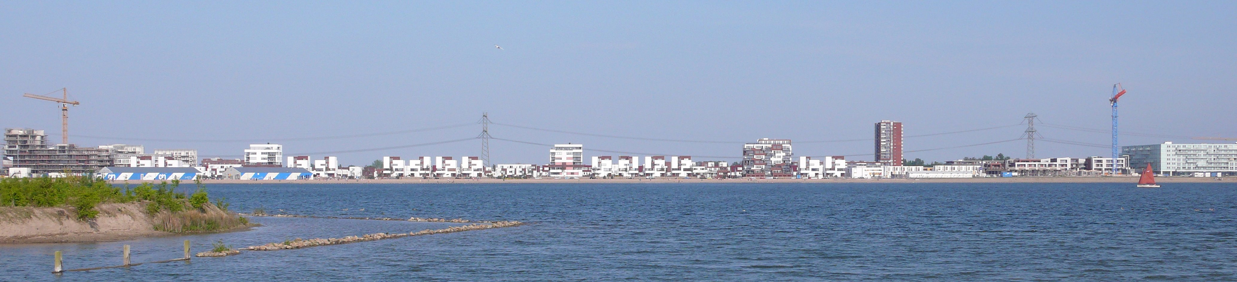 Nesselande suburb, Rotterdam, The Netherlands.